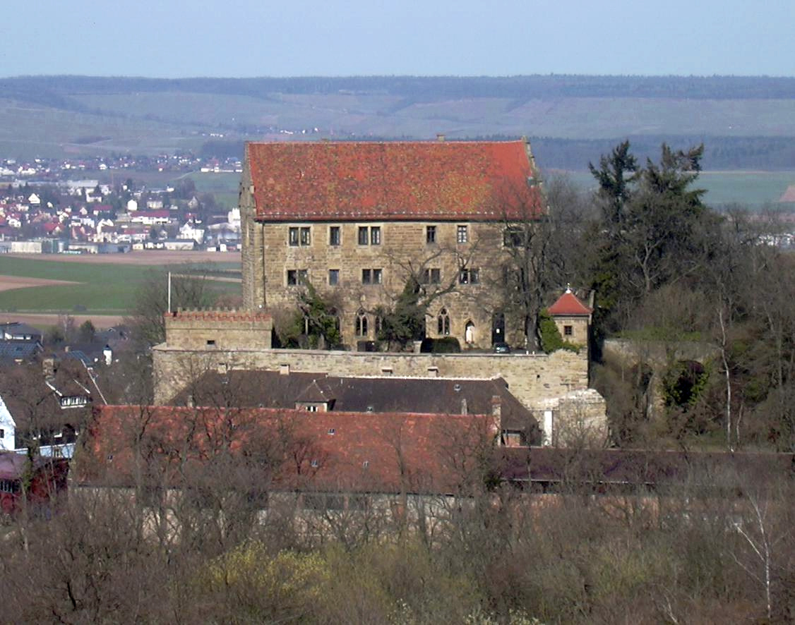 Castle of Magenheim near Cleebronn, Germany